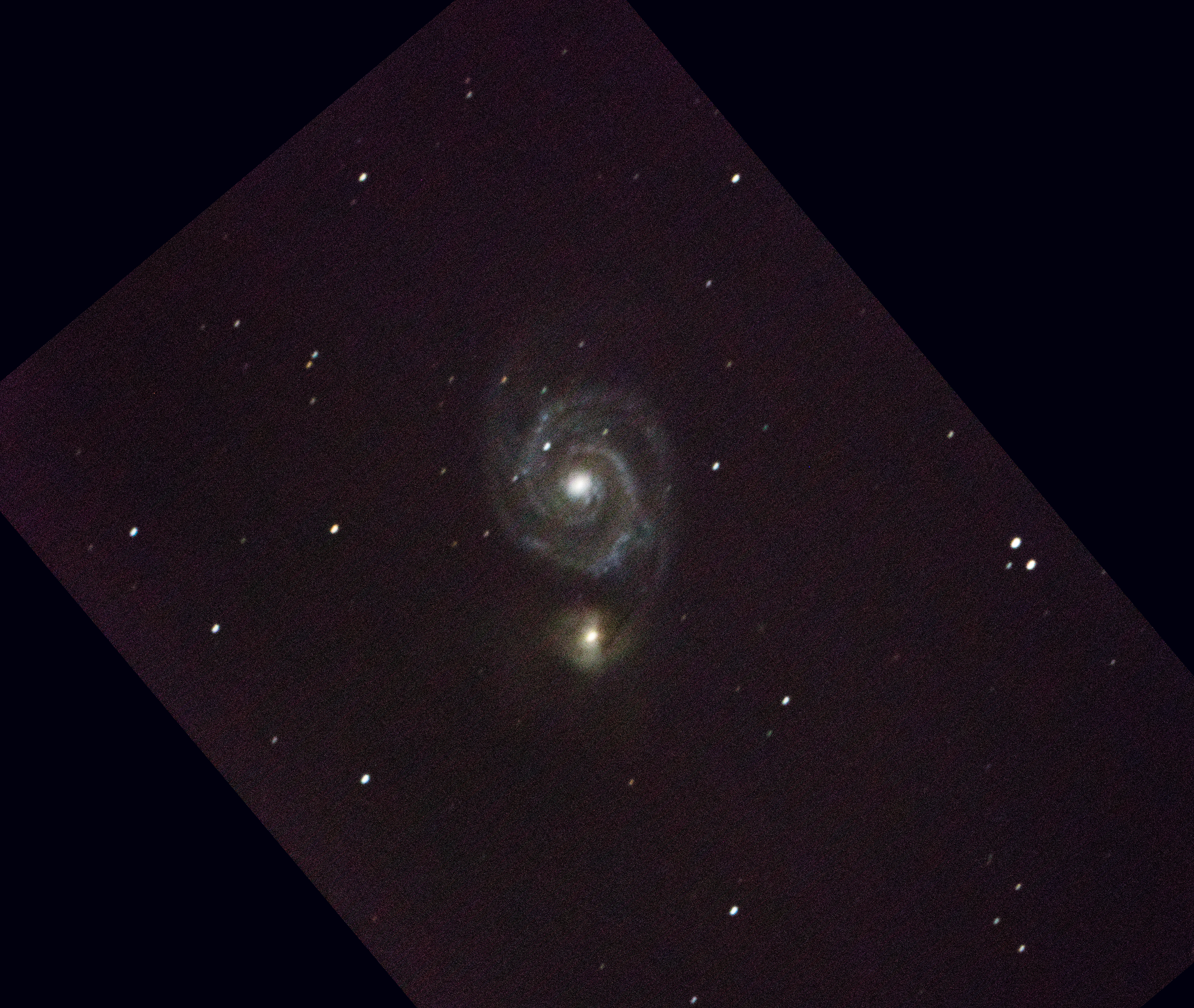 M51, the Whirlpool Galaxy taken through the Killarney Provincial Park Observatory - Dome 1, Primary Telescope